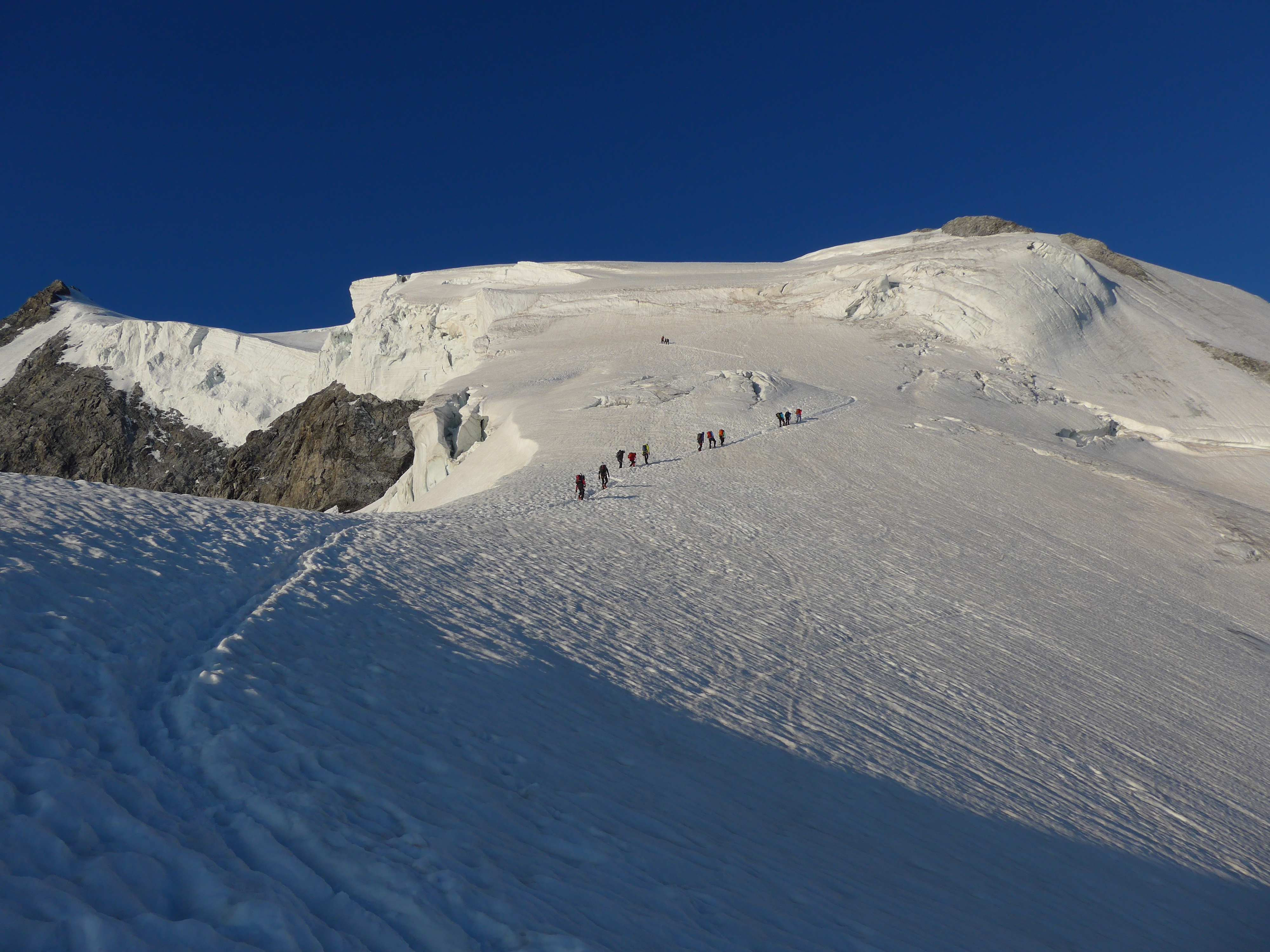 Ascent via normal route at Oberer Ortlerferner, above Tschierfeck